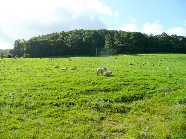 Aconbury Hill Looking south over sheep pasture from King's Pitts.